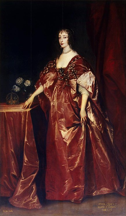 Henrietta Maria of France, queen of England